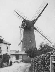 Photograph of Ashby's mill, Brixton